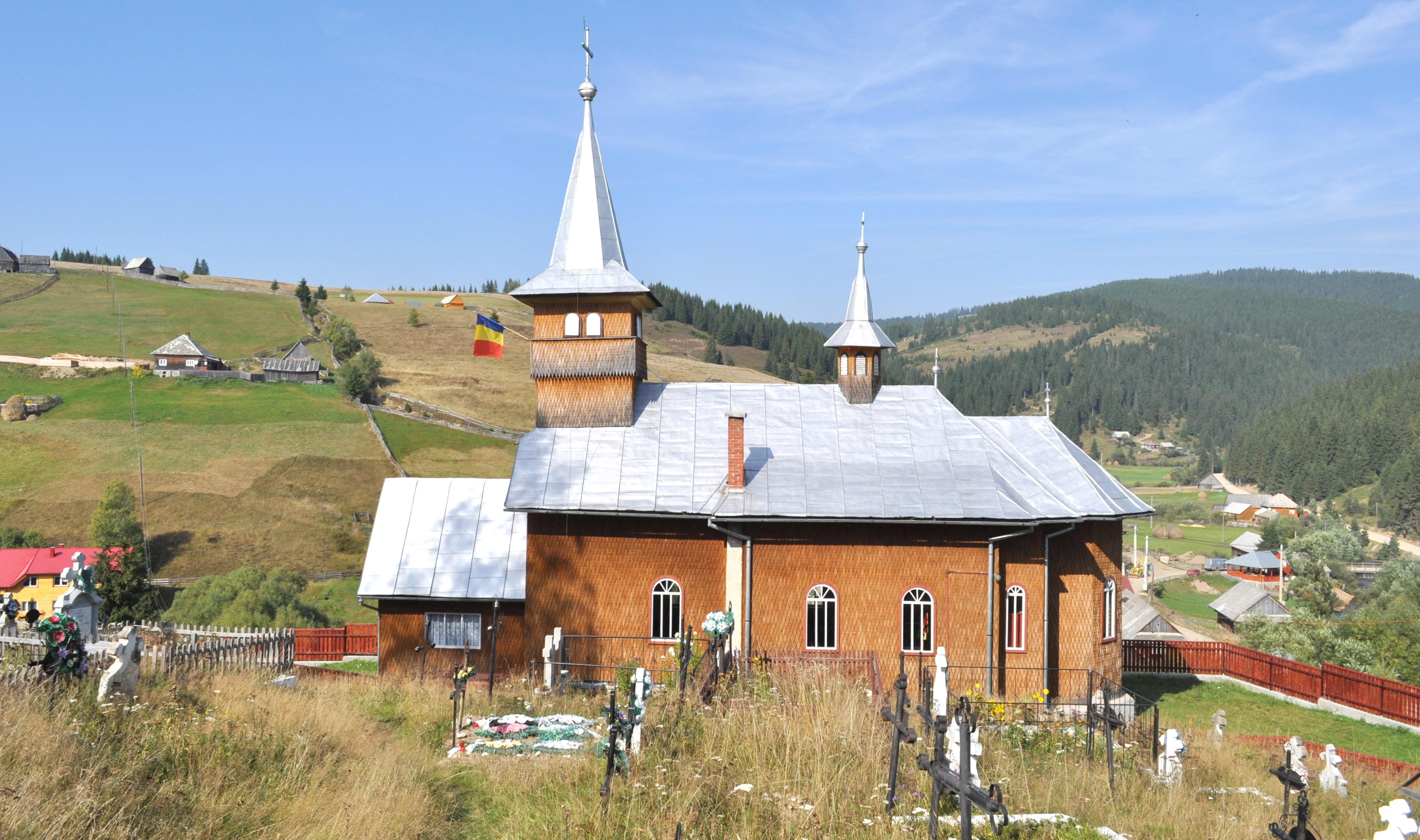 Wooden church in Poiana Horea, Cluj County, Romania